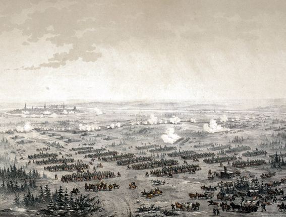 Battle of Narva 1700